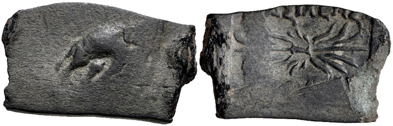 Antimachos I Theos Indian standard coin. Circa 180-170 BC. Æ (20mm, 2.69 g, 12h). Indian standard. Small module. Elephant advancing right / Thunderbolt.